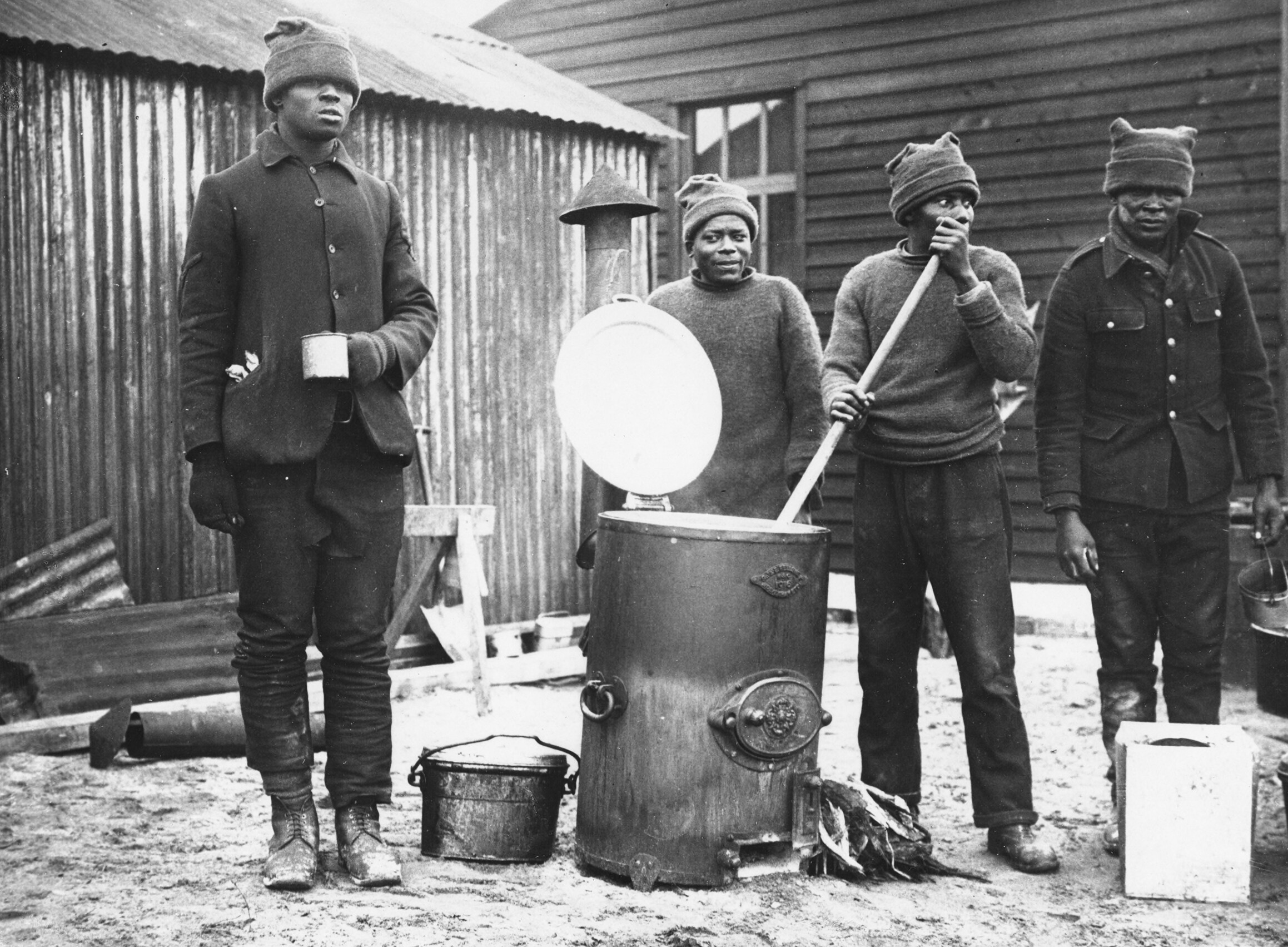 Cooking in a labour camp, Western Front, during World War I. This photograph shows four men cooking and drinking soup from a British Army 'Soyer Stove'. They are all probably members of the South African Native Labour Contingent (SANLC) who were recruited to work in a non-military capacity on the Western Front as part of the Labour Corps. When the SANLC were recruited, the units tended to be organised on the basis of their homeland tribe or region. In part this was to avoid problems from traditional tribal feuds, but it also reflects the fear of the South African government that the different native groups would combine against the existing white rule. [Original reads: 'The soup kitchen.']